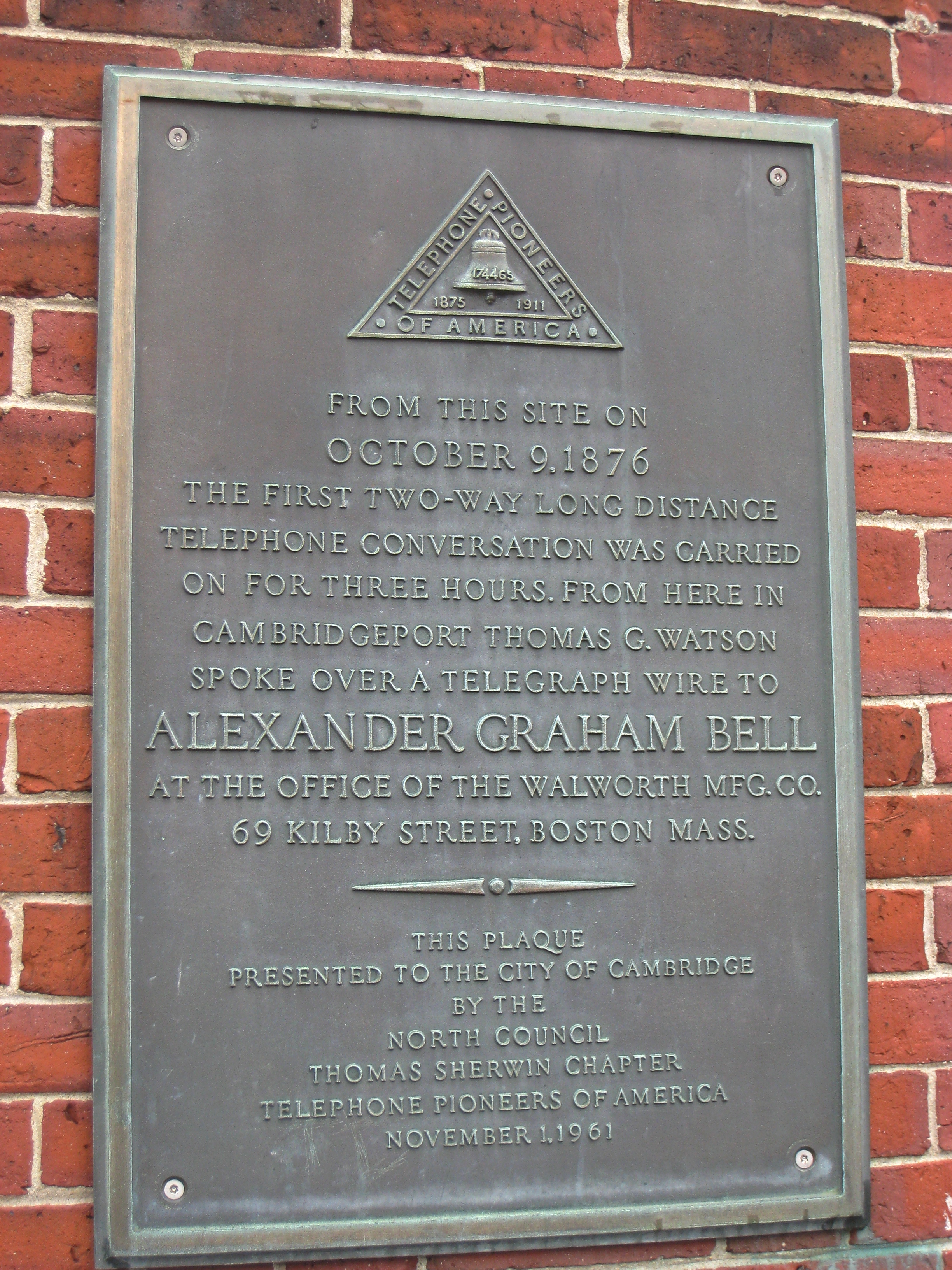 A sculptor's impression of the other end of the conversation Telephony plaque, 710 Main Street, Cambridge, Massachusetts, USA. According to this plaque 710 Main Street was one end of the first two-way long distance telephone conversation, which extended across three hours on October 9, 1876. Thomas G. Watson was at this location, and spoke to Alexander Graham Bell at 69 Kilby Street, Boston, Massachusetts. This building had previously been the Davenport Car Manufactory, pioneering manufacturer of railroad cars, as noted in another plaque on the facade.